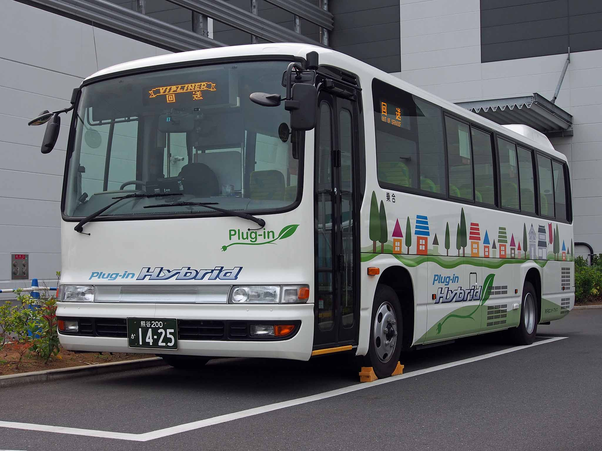 Fleet of Heisei Enterprise, demonstrator of plug-in hybrid-powered bus, operated between Kasukabe station and Minami-sakurai station via AEON Mall Kasukabe. Base: Hino Melpha SDG-RR7JJCA License plate: STK200 KA1425 Place: AEON Mall Kasukabe, Kasukabe City, Saitama Japan